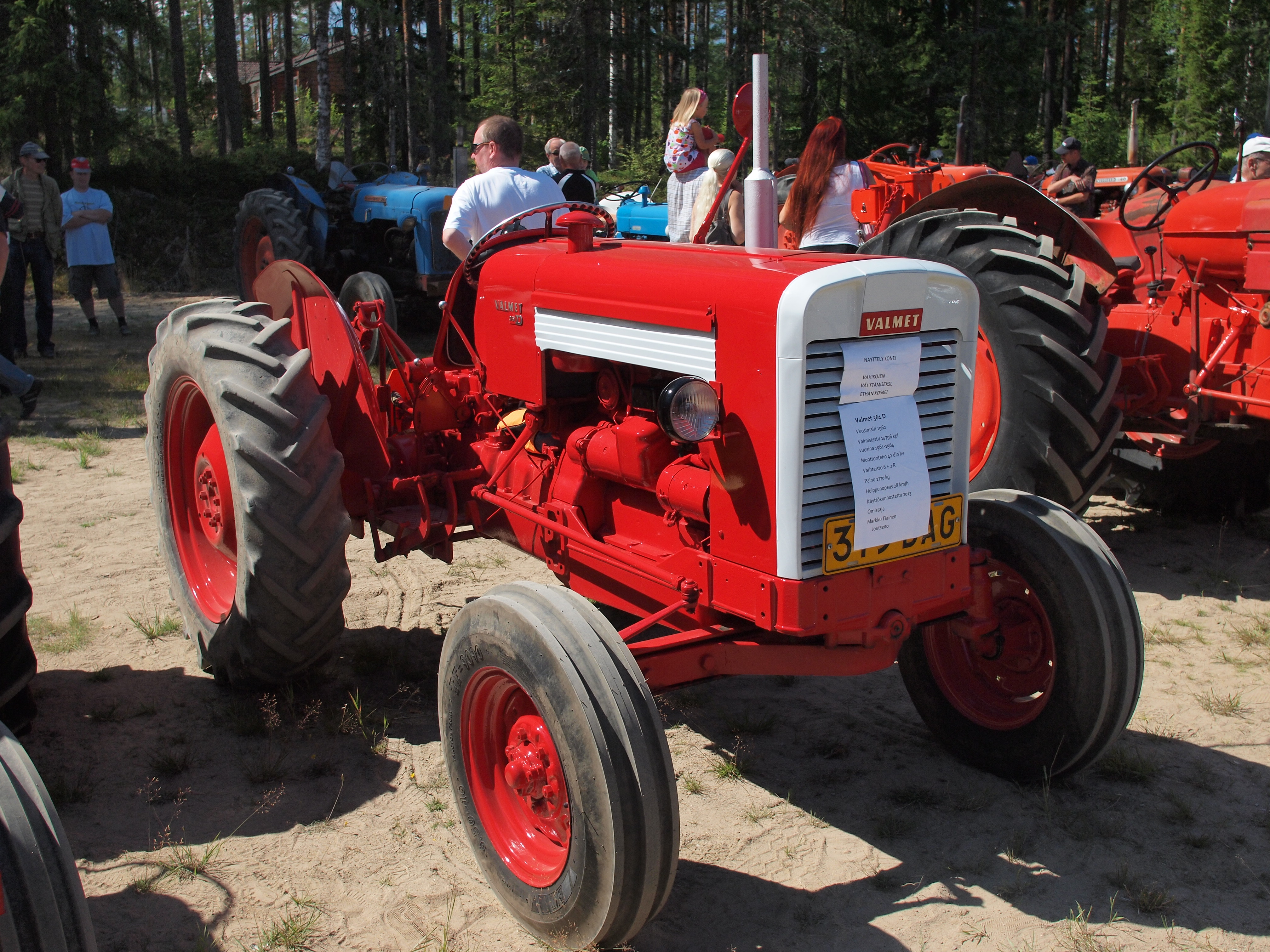 Valmet 361D 1962